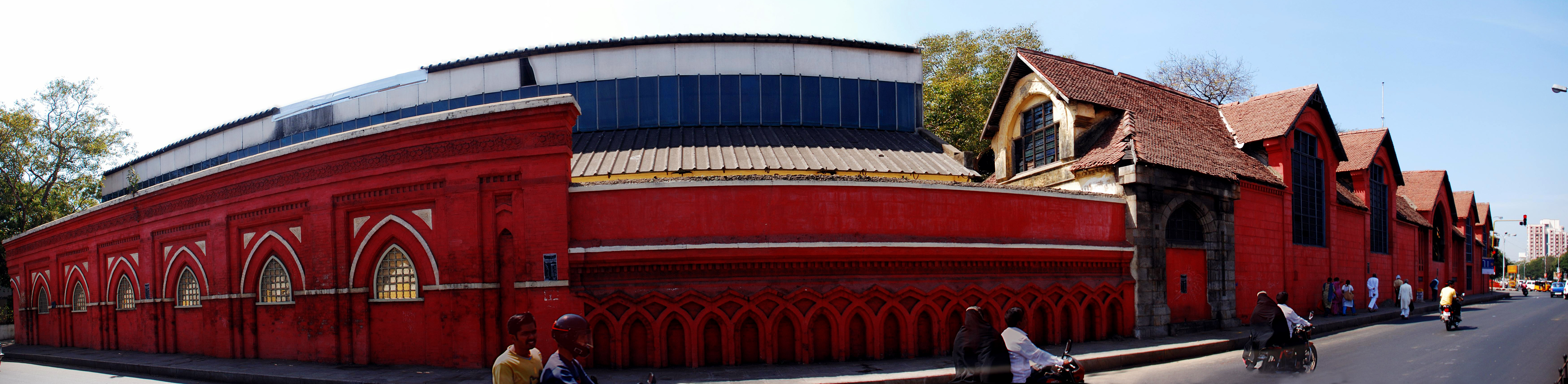 Picture shows The Government Fine Arts College, Chennai, in a panoramic shot, composed of 6 individual photos stitched together.